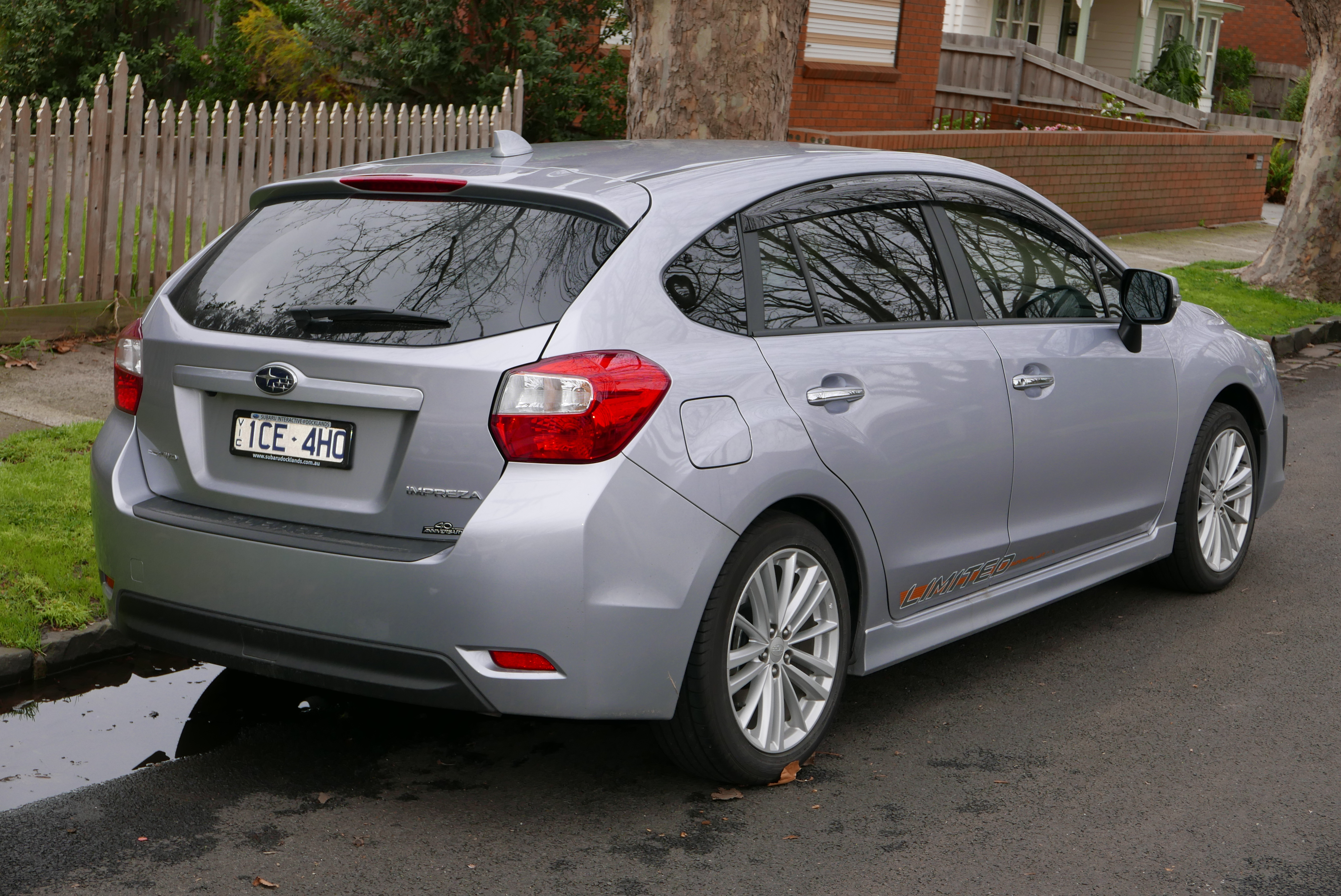 2014 Subaru Impreza (GP7 MY14) 2.0i-S 40th Anniversary hatchback. This looks like it may be a limited edition model due but there does not seem to be any information about this on the internet at the time of upload. Photographed in Brunswick East, Victoria, Australia. Vehicle registration enquiry resultsJurisdictionVictoriaRegistration1CE4HOChassis codeJF1GP7KC5EG052376Engine code1307738Compliance date2014-10Year of manufacture2014